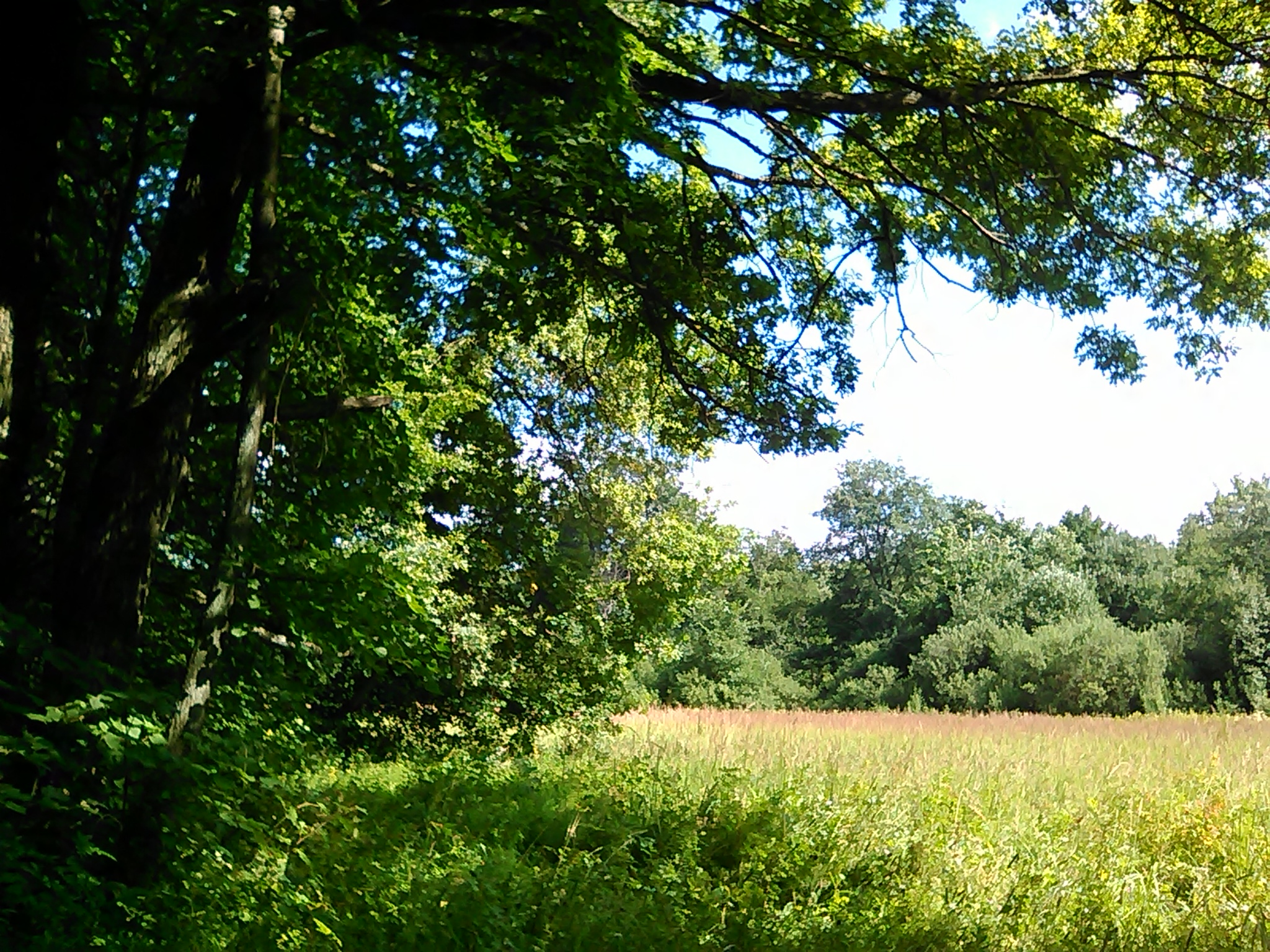 Oak Grove. Nature of Yoshkar Ola's surroundings.